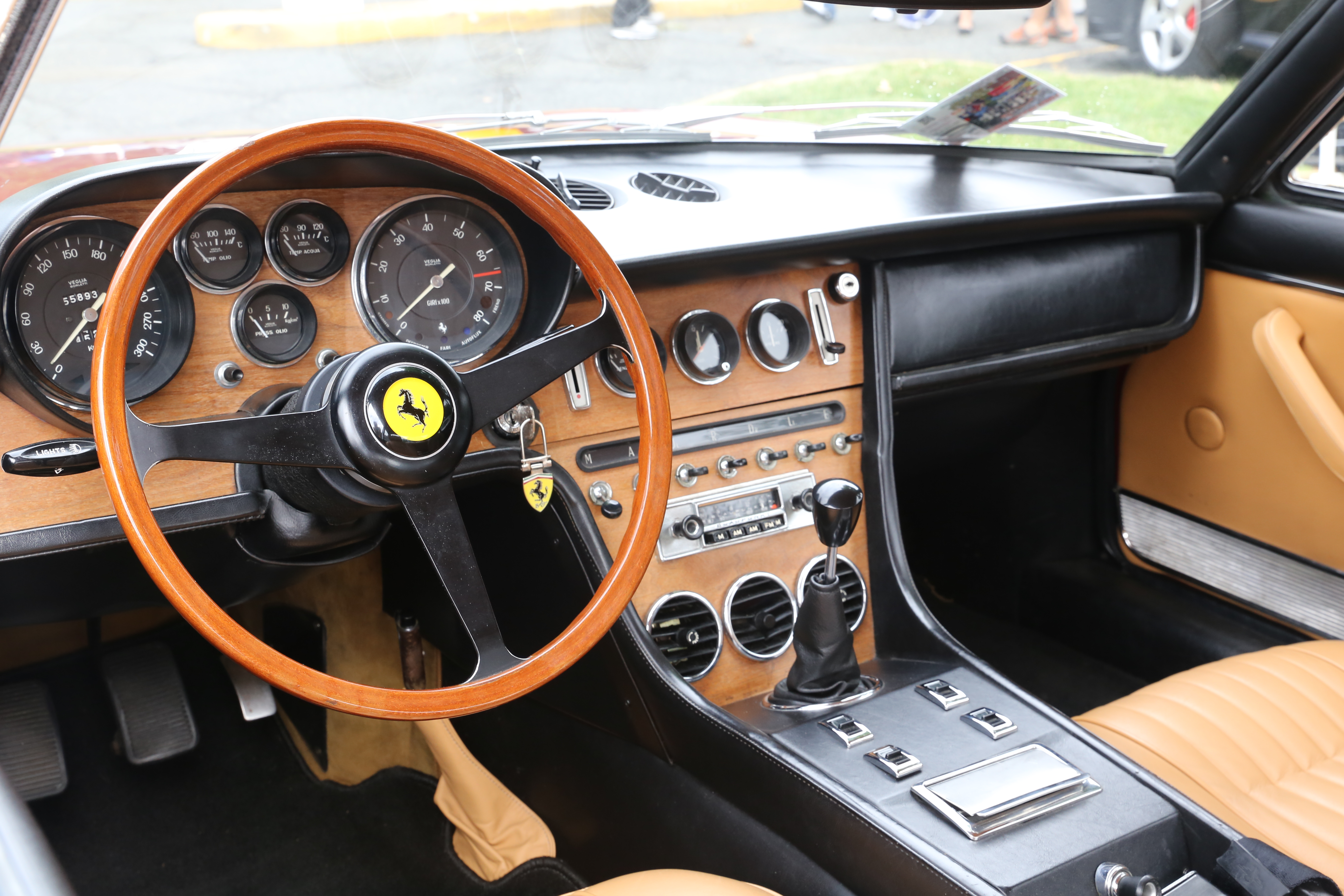 Dashboard of a 1968 Ferrari 365 GT 2+2.